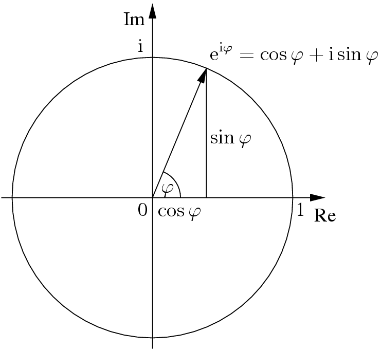 Euler's formula illustrated in the complex plane. Created using xfig.